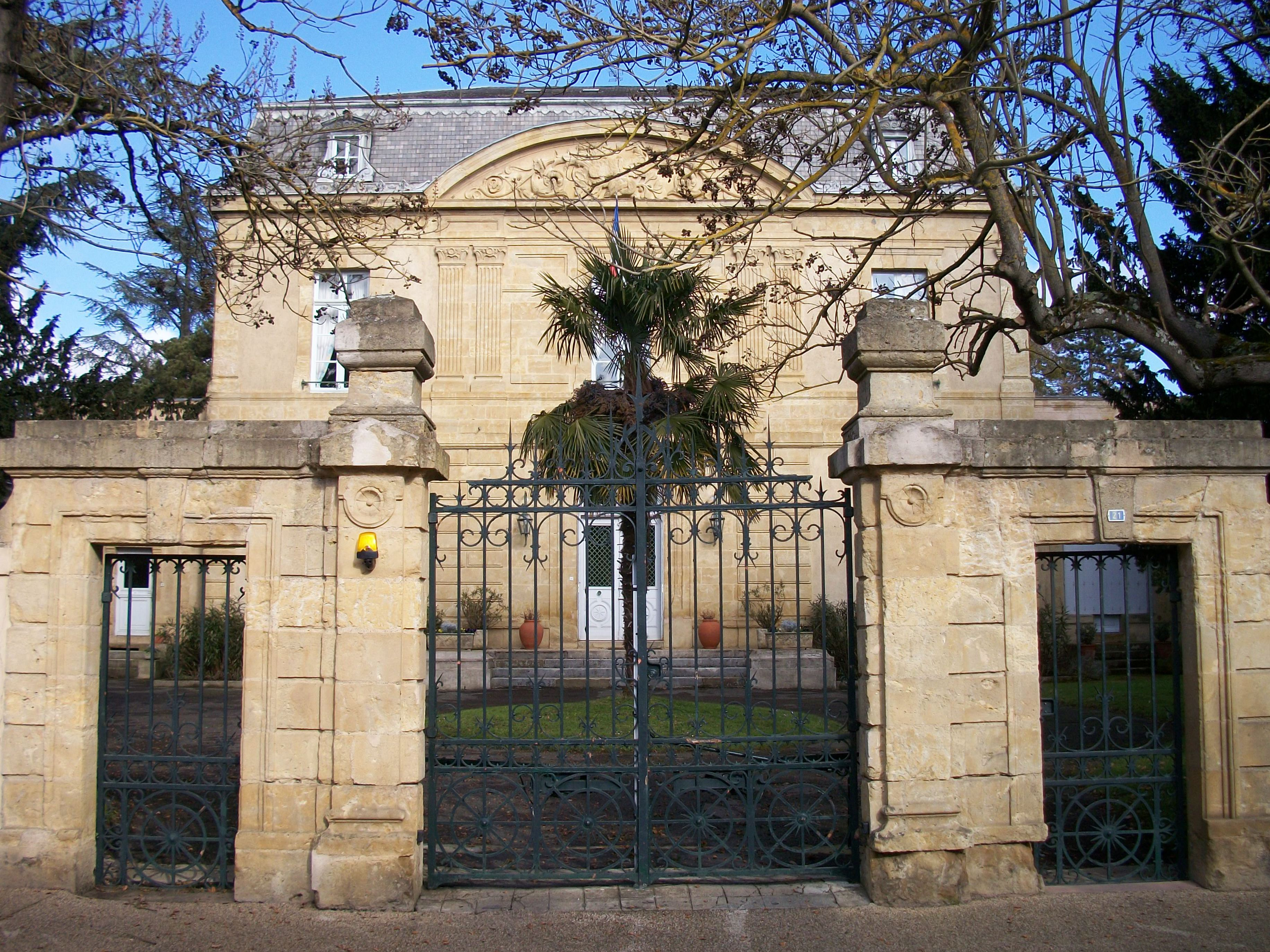 Subprefecture, Mirande, Gers, France